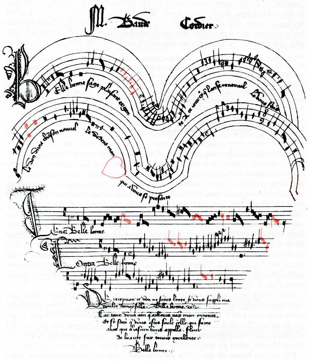 Example of Ars subtilior music (14th c.)